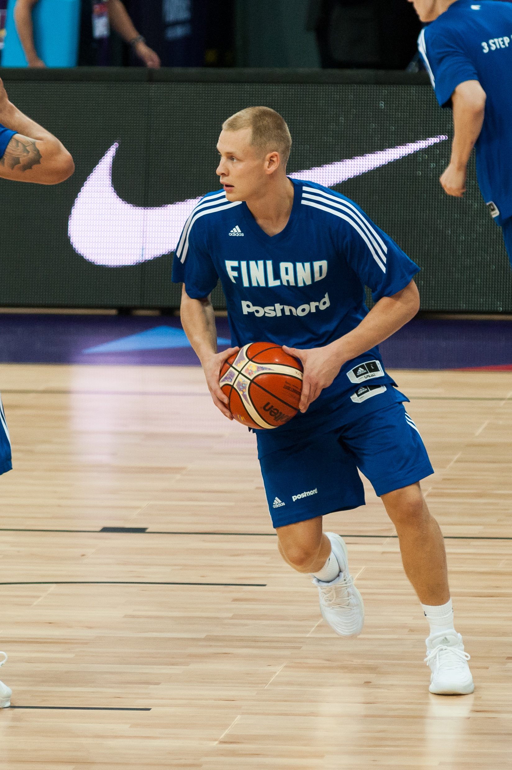 EuroBasket 2017 Group A game between France and Finland at Hartwall Arena in Helsinki, Finland.